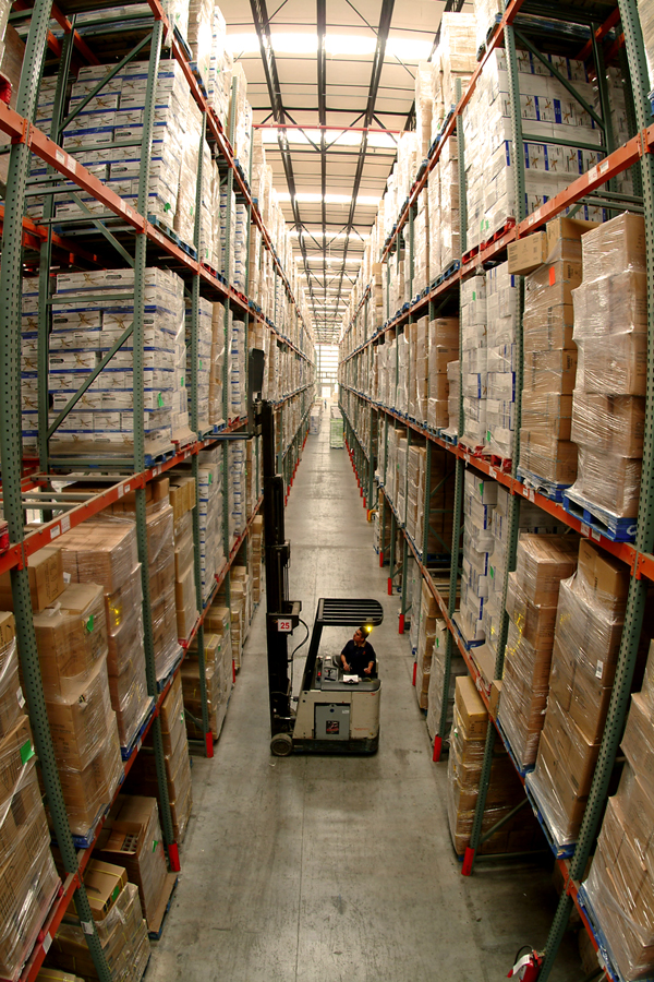 distribution center